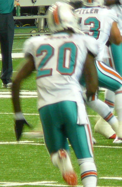 If used somewhere other than Wikipedia, Nelson, by name.